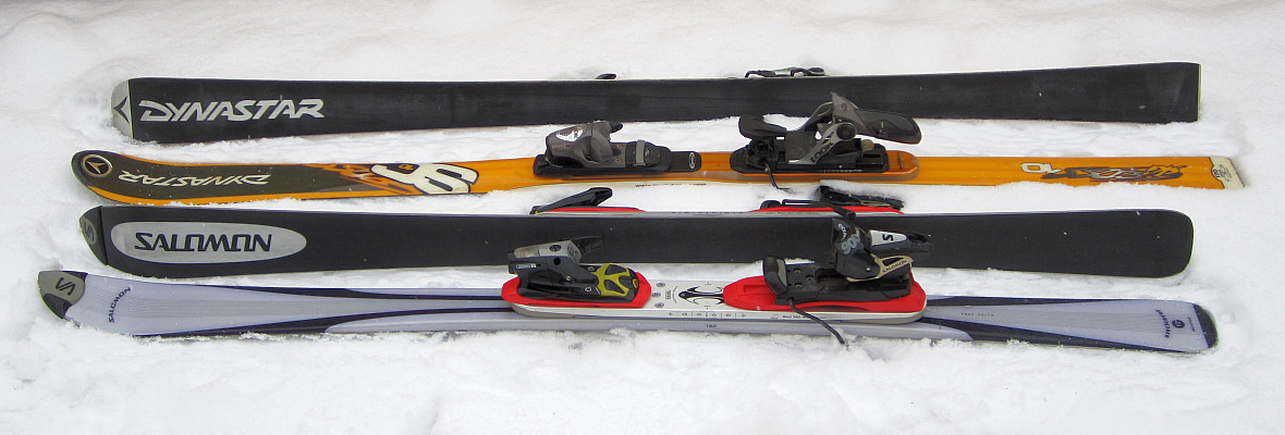 Hypercarver skis compared to crosscarver skis: Bottom: hypercarver 1998 Salomon Axecleaver 10 with riser plate, length 152 cm, sidecut (mm) 108-68-98, radius 10 m Top: crosscarver 2003 Dynastar Skicross SC 10, length 170 cm, sidecut 105-66-94, radius 17,5 m (calulated)